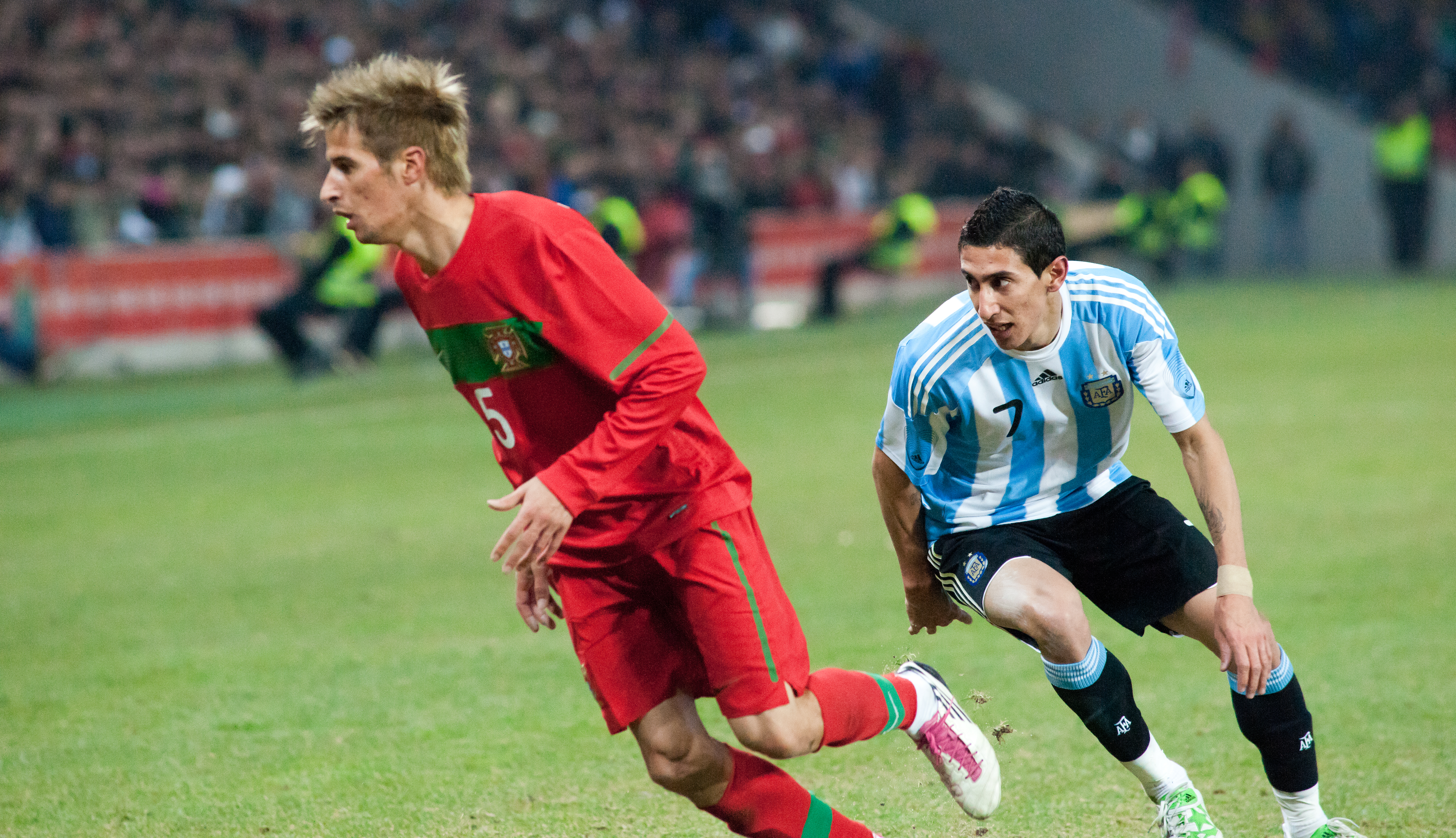 The making of this document was supported by Wikimedia CH. (Submit your project!) For all the files concerned, please see the category Supported by Wikimedia CH. Portugal vs. Argentina, 9th February 2011